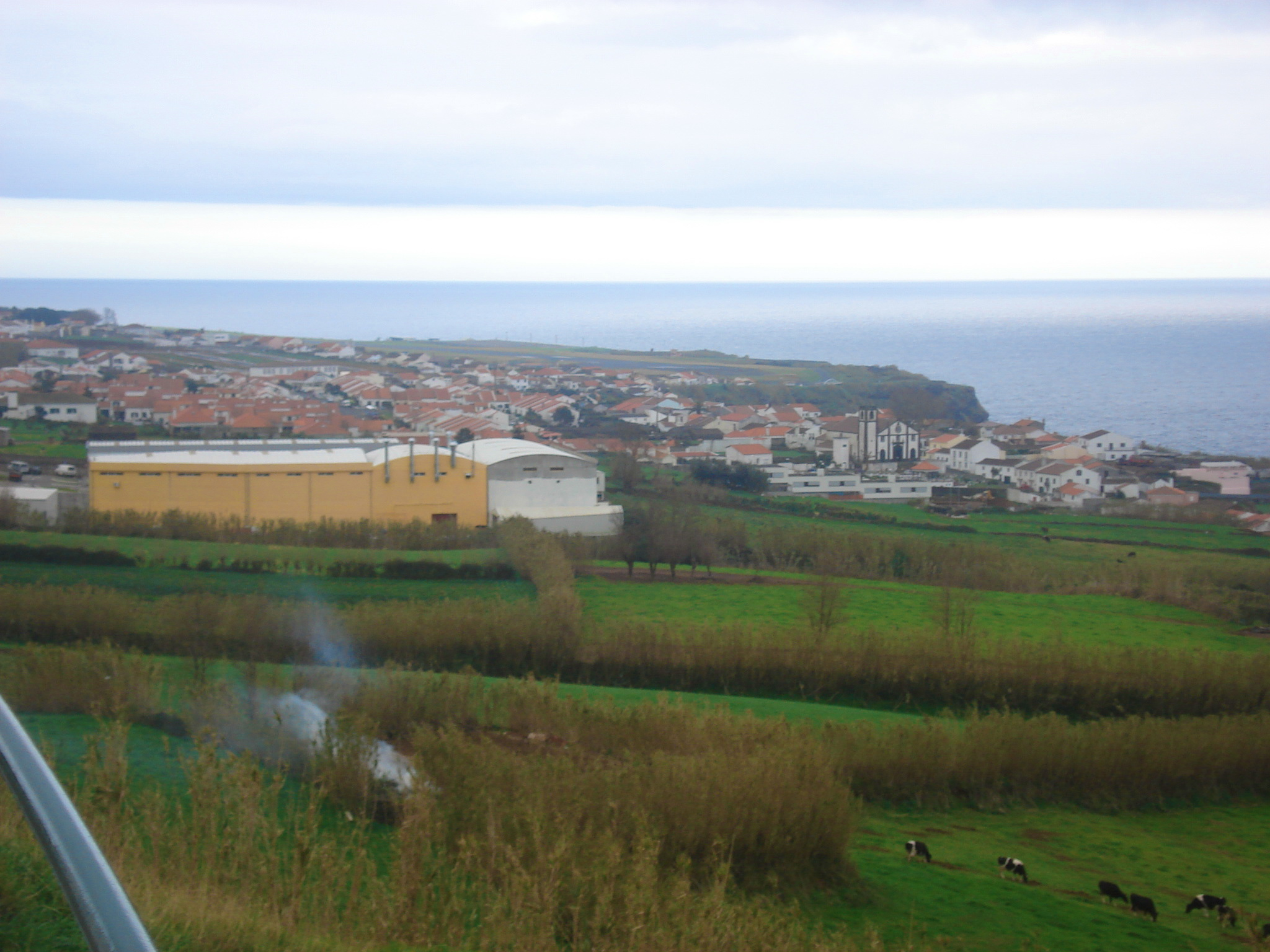 A view from the lookout of Caminho Novo towards the settlement of Relva, municipality of Ponta Delgada (Azores), Portugal